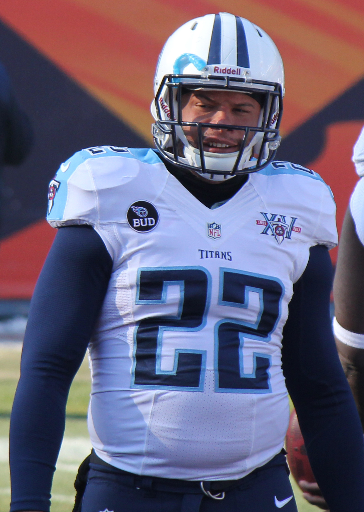 Jackie Battle, a player on the National Football League.